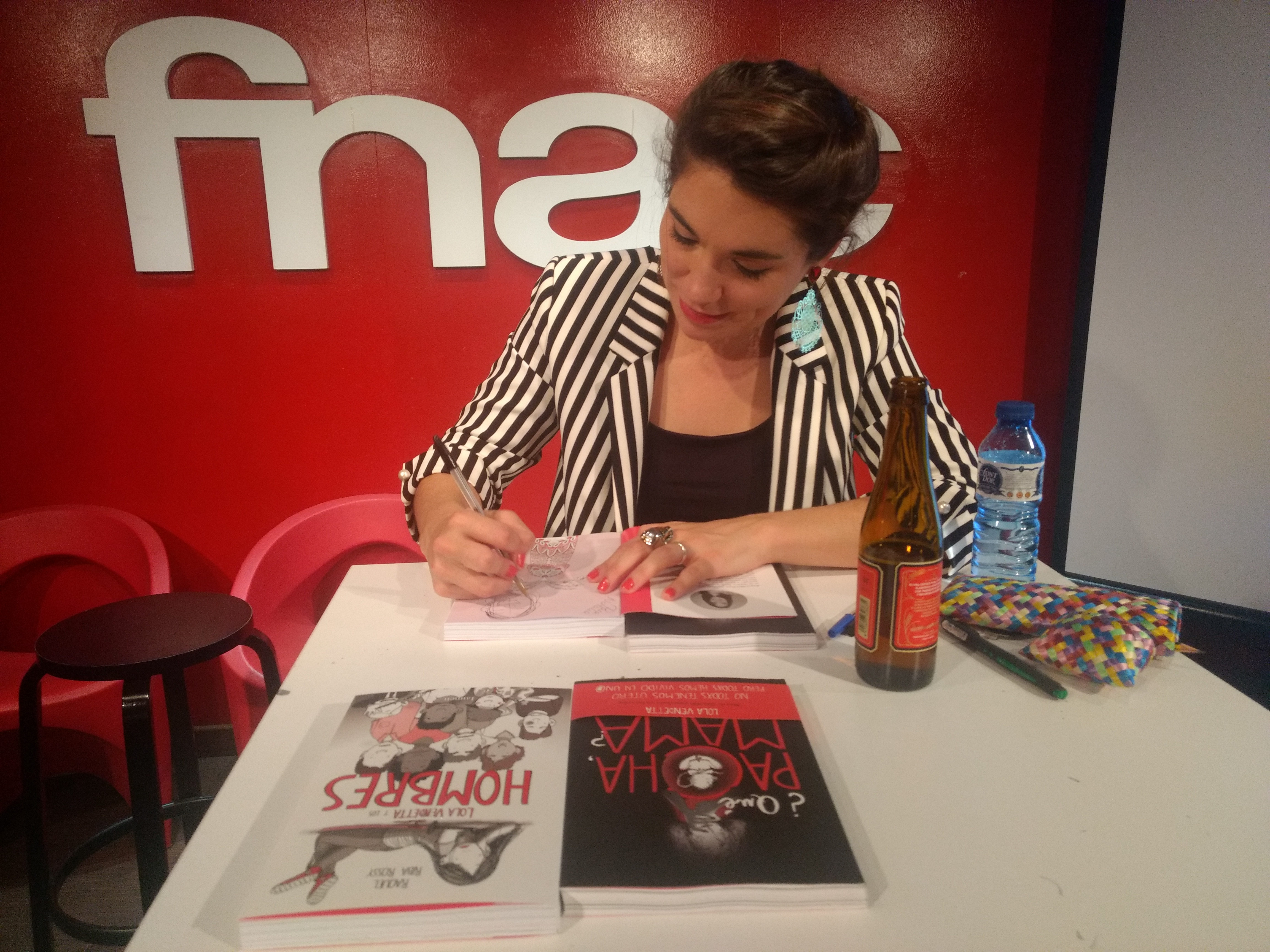 Presentation of the book "Lola Vendetta y los hombres"